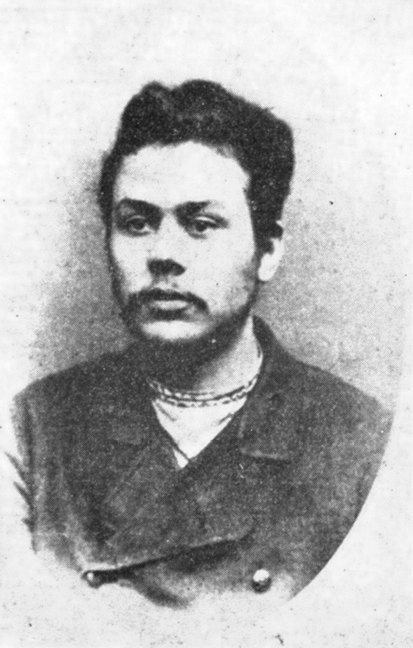 Bolesław Onufrowicz (1860-1913)